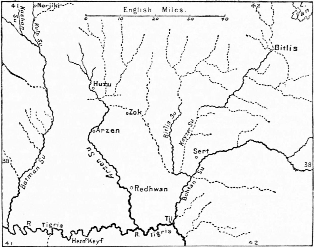 Map of the major tributaries of the upper Tigris River in Asiatic Turkey c. 1888, now divided between southeastern Turkey and northern Iraq.